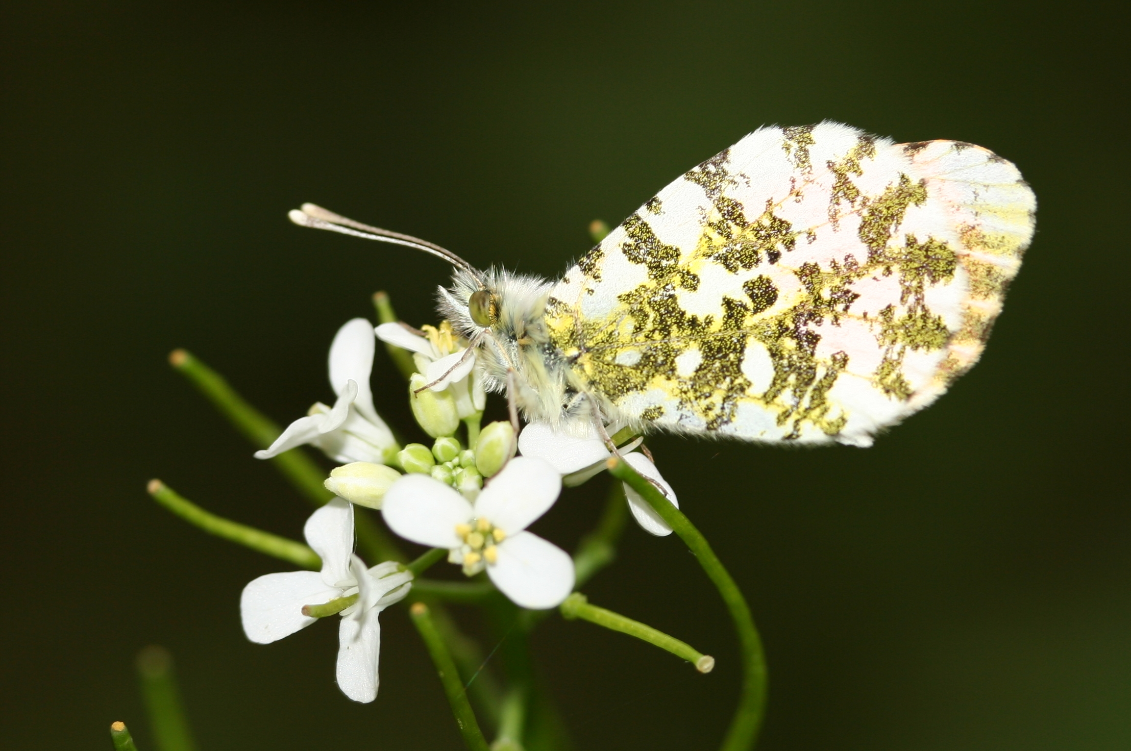 Anthocharis_cardamines 21 May 2006 IJmuiden, the Netherlands